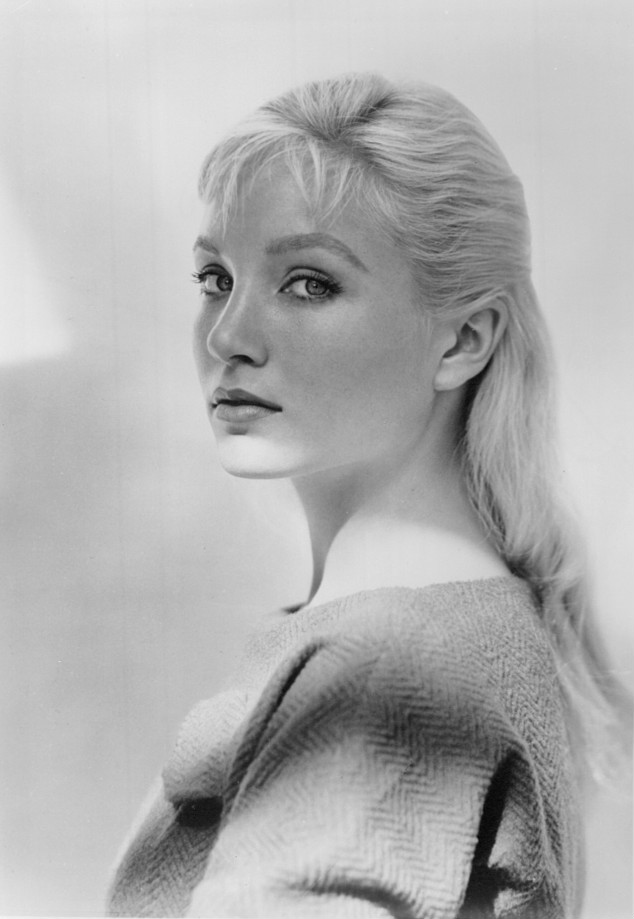 Photo of Susan Oliver from an appearance on Kraft Television Theatre